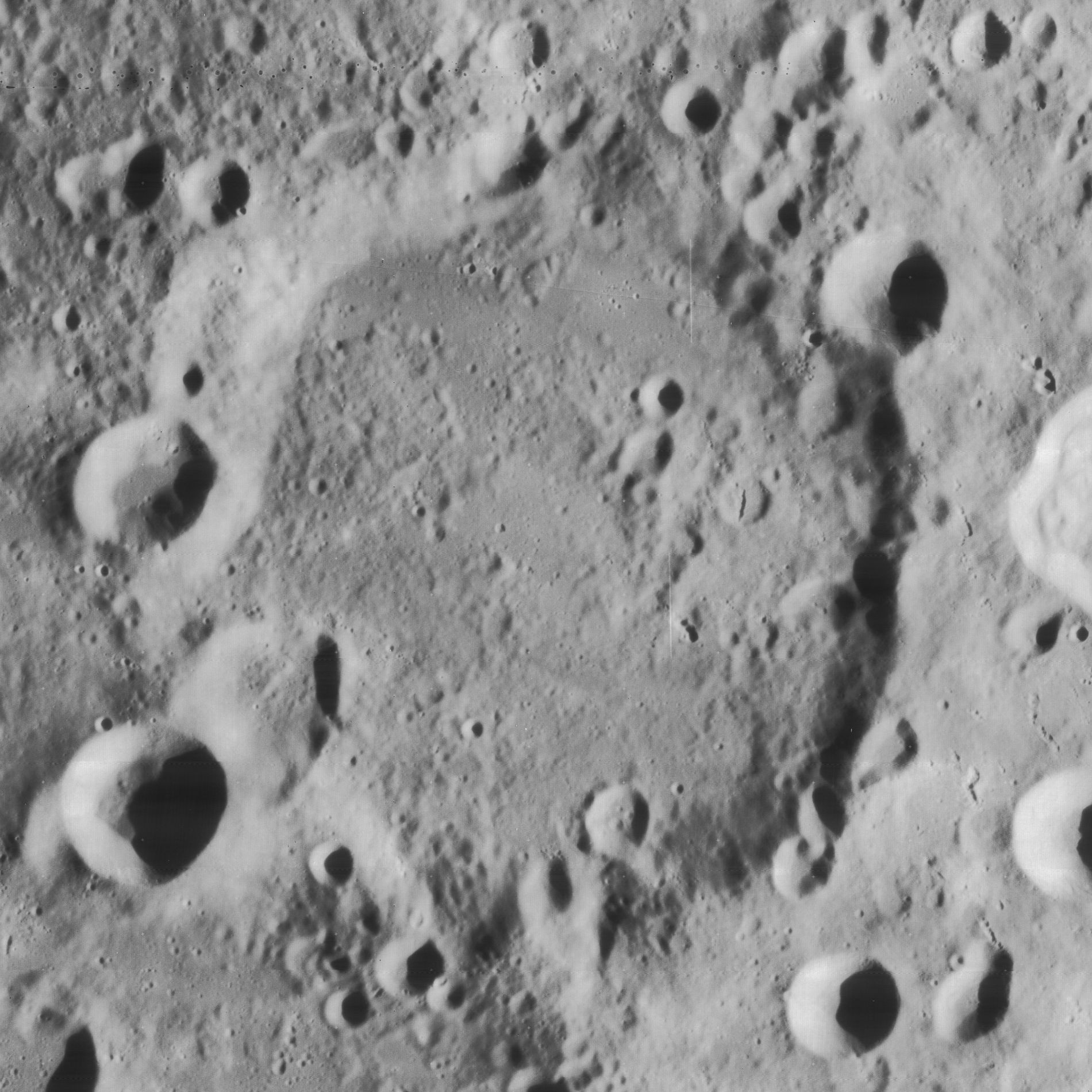 Wilhelm, on the moon. North is to upper right.